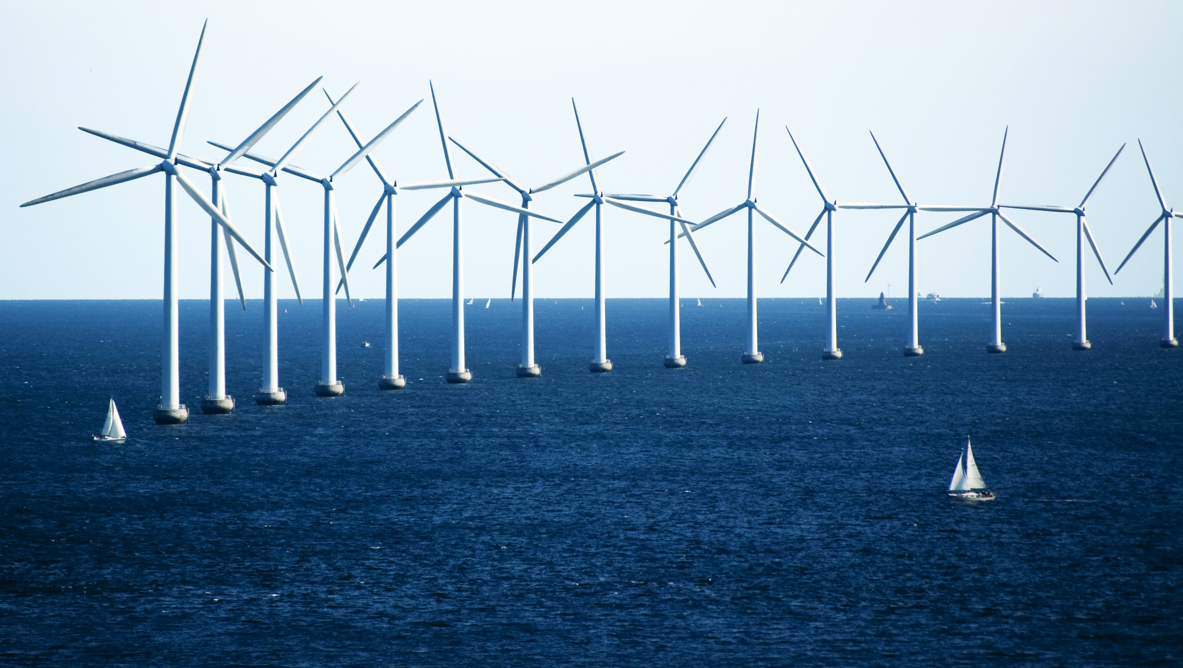 europe, energy, 2009-07 -- Baltic Cruise, Copenhagen, denmark, sailboats, windmills, electricity, wind, renewable, wind farm, renewable energy, wind power, wind turbines